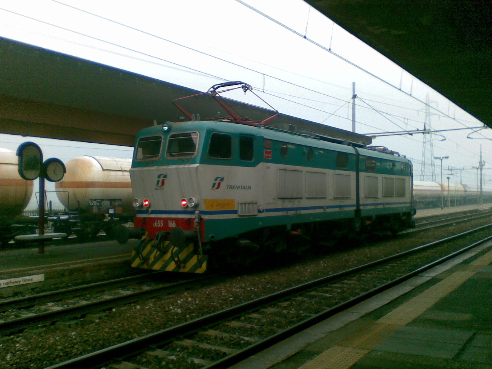 Trenitalia Cargo's E.655.166 locomotive, photographed at Casalpusterlengo station by user Deplo.